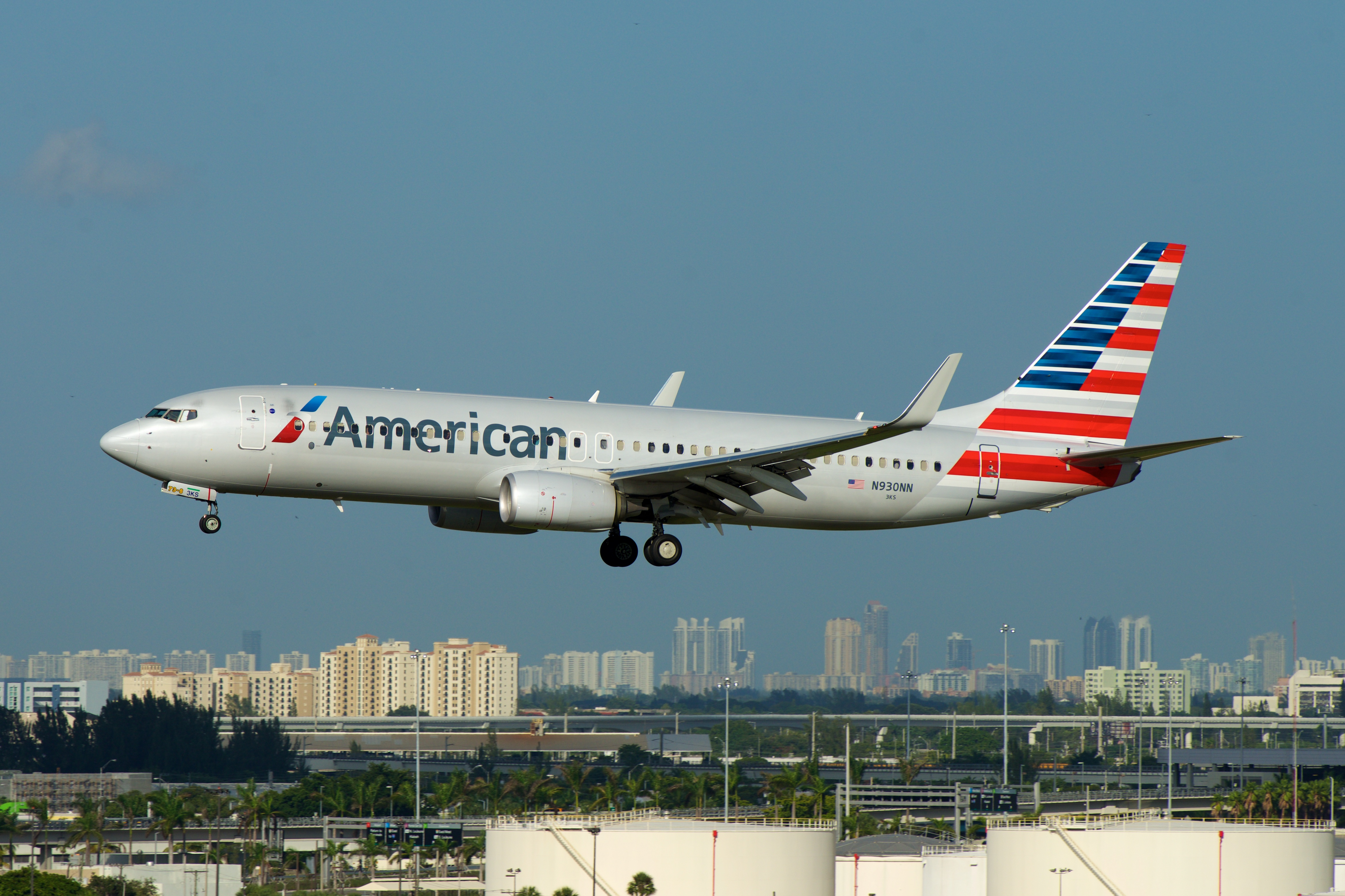 Short Final, MIA